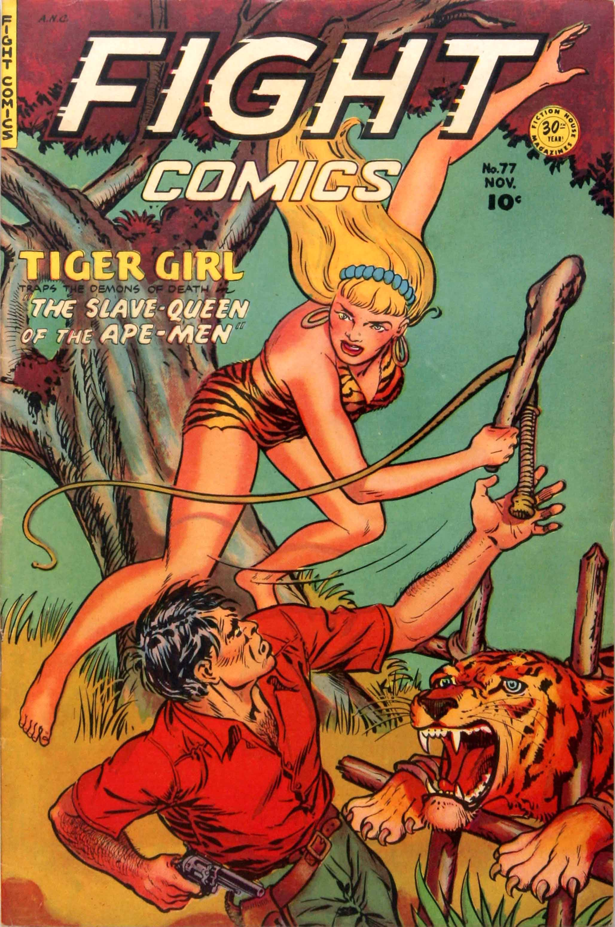 Cover art of Fight Comics #77 art by Maurice Whitman